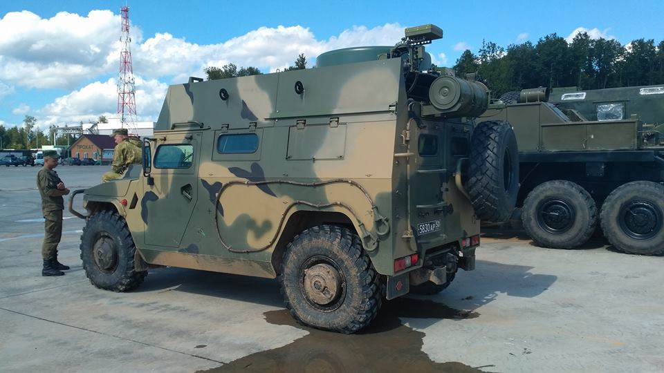 command vehicle P-230T on Tigr-M for Russian Airborne Troops